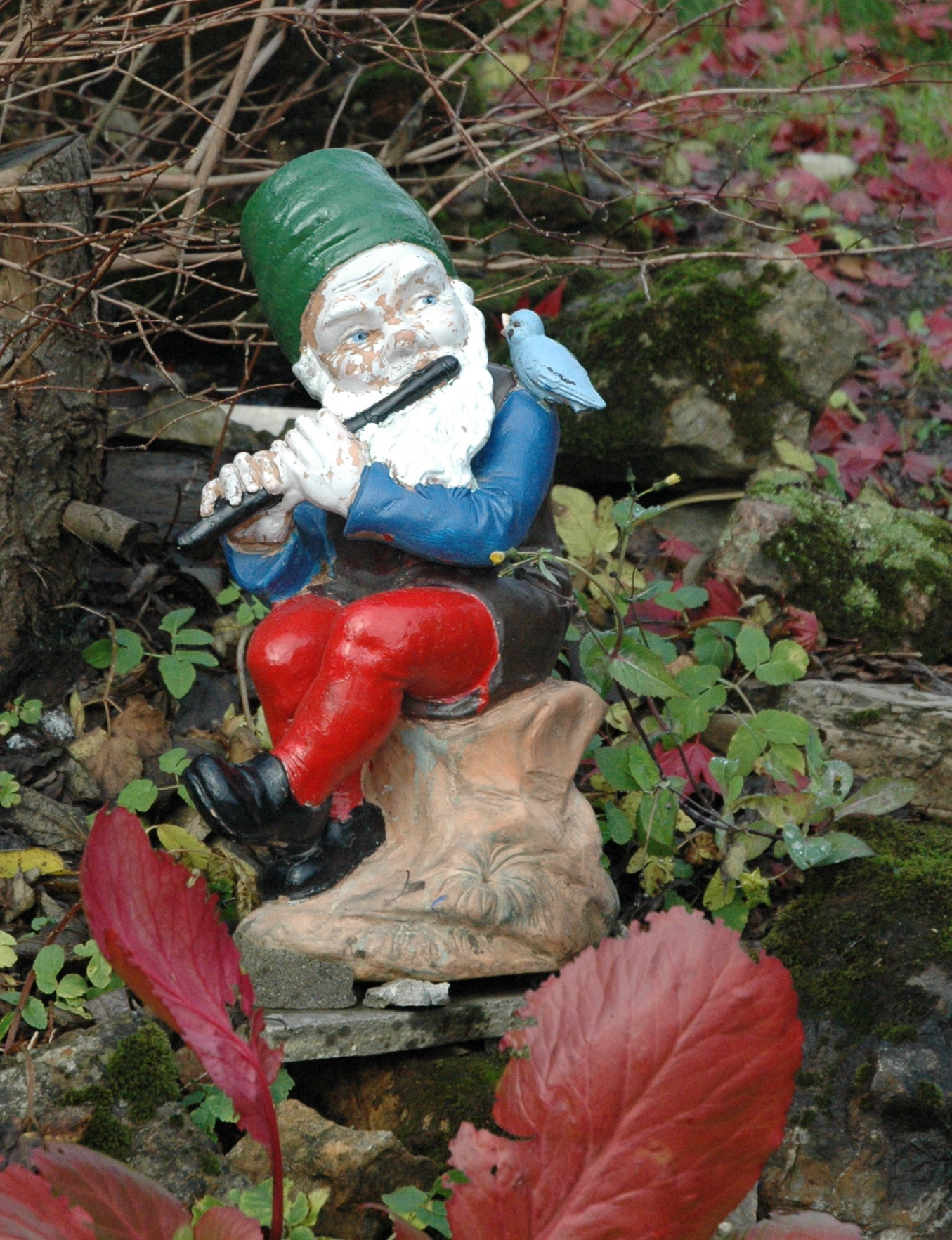 Garden gnome, found in garden by the Oslo fjord, Norway.